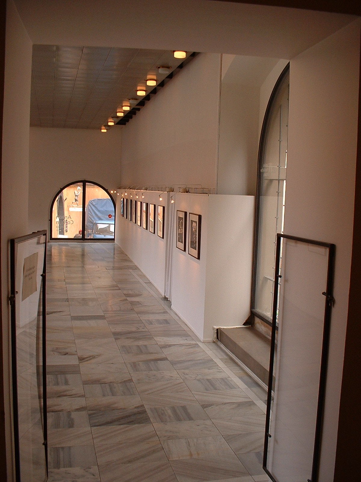 Anton Corbijn in Leica Gallery, Prague 2002